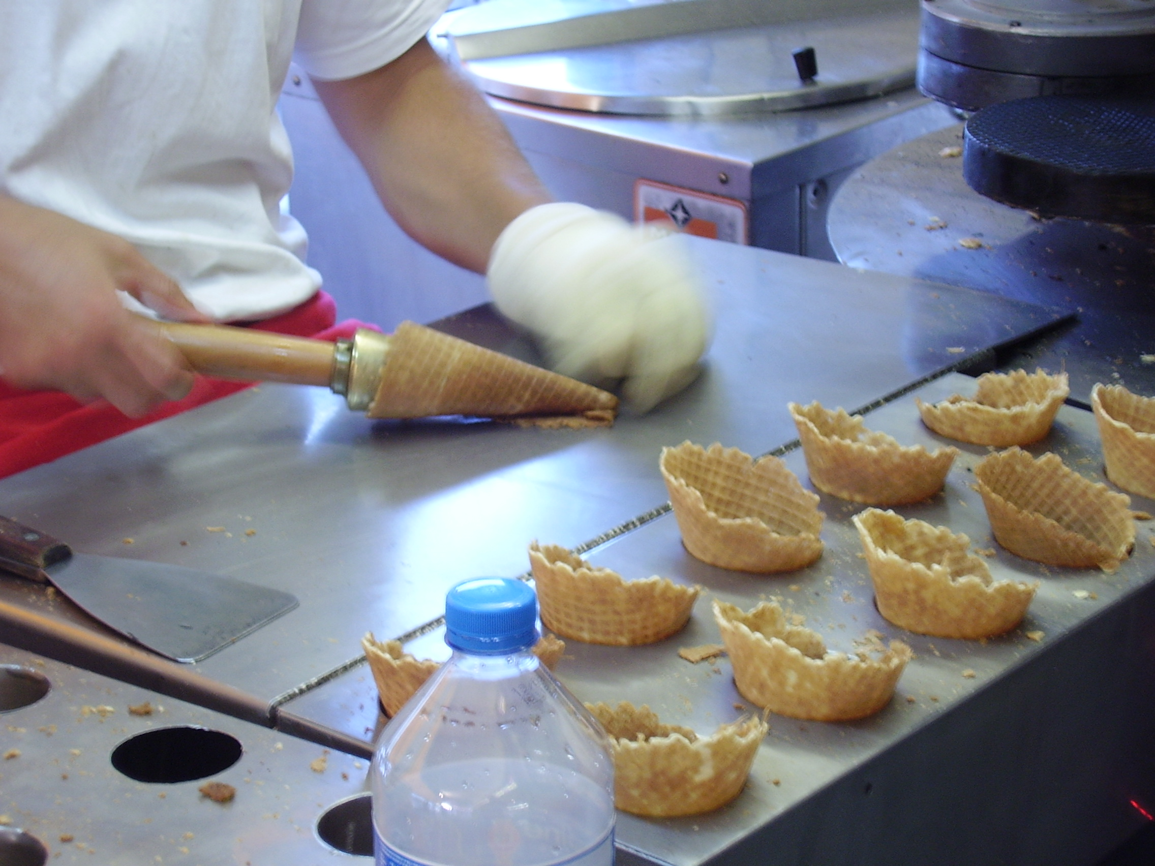 Waffles, for icedream, France, Bretagne, Carnac Plage